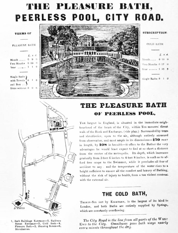 A handbill of 1846 advertising The Pleasure Bath, Peerless Pool, Baldwin Street, City Road, London. It was originally named Perilous Pond because of several drownings. In 1743 it was enclosed and used as a bathing place, the first public swimming pool in London. It was built over in 1850.